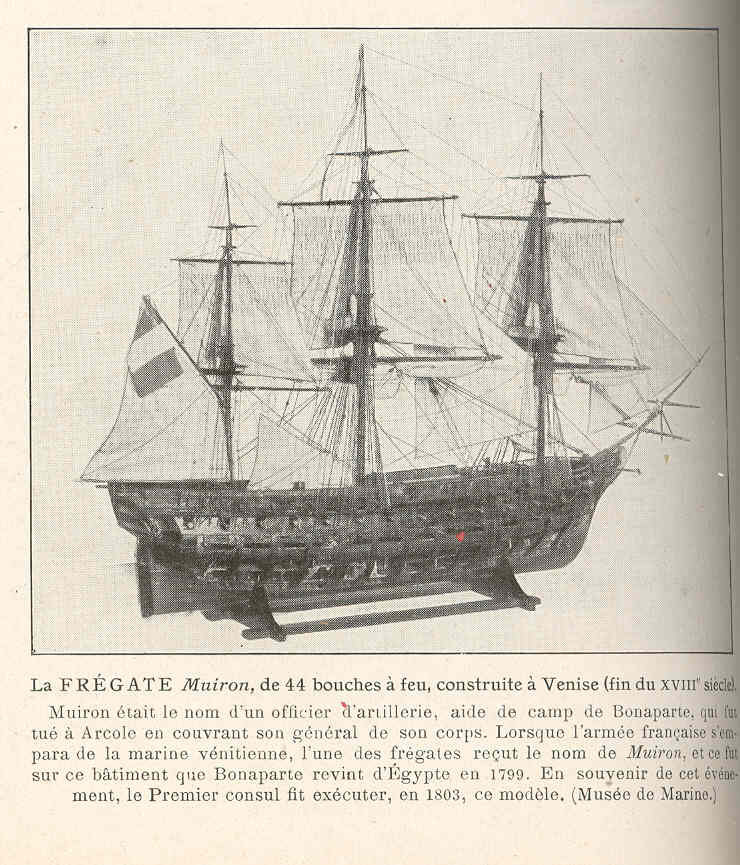 Muiron etait le nom d'un officier d'artilerie, aide de camp de Bonaparte, qui fut tue a Arcole en couvrant son general de son corps. Lorsque l'armee francaise s'empara de la marine venitienne, l'une des fregates recut le nom de Muiron, et ce fut sur ce batiment que Bonaparte revint dd'Egypte en 1799. En souvenir de cet evenemt, le Premier consul fit executer, en 1803, ce modele (Musee de Marine Subject: Frigates, Sailing sips, Murion (Ship) Tag: Vessels